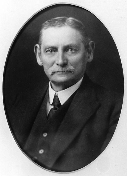 Cpt. Matthew Henry Phineas Riall Sankey (1853-1926)